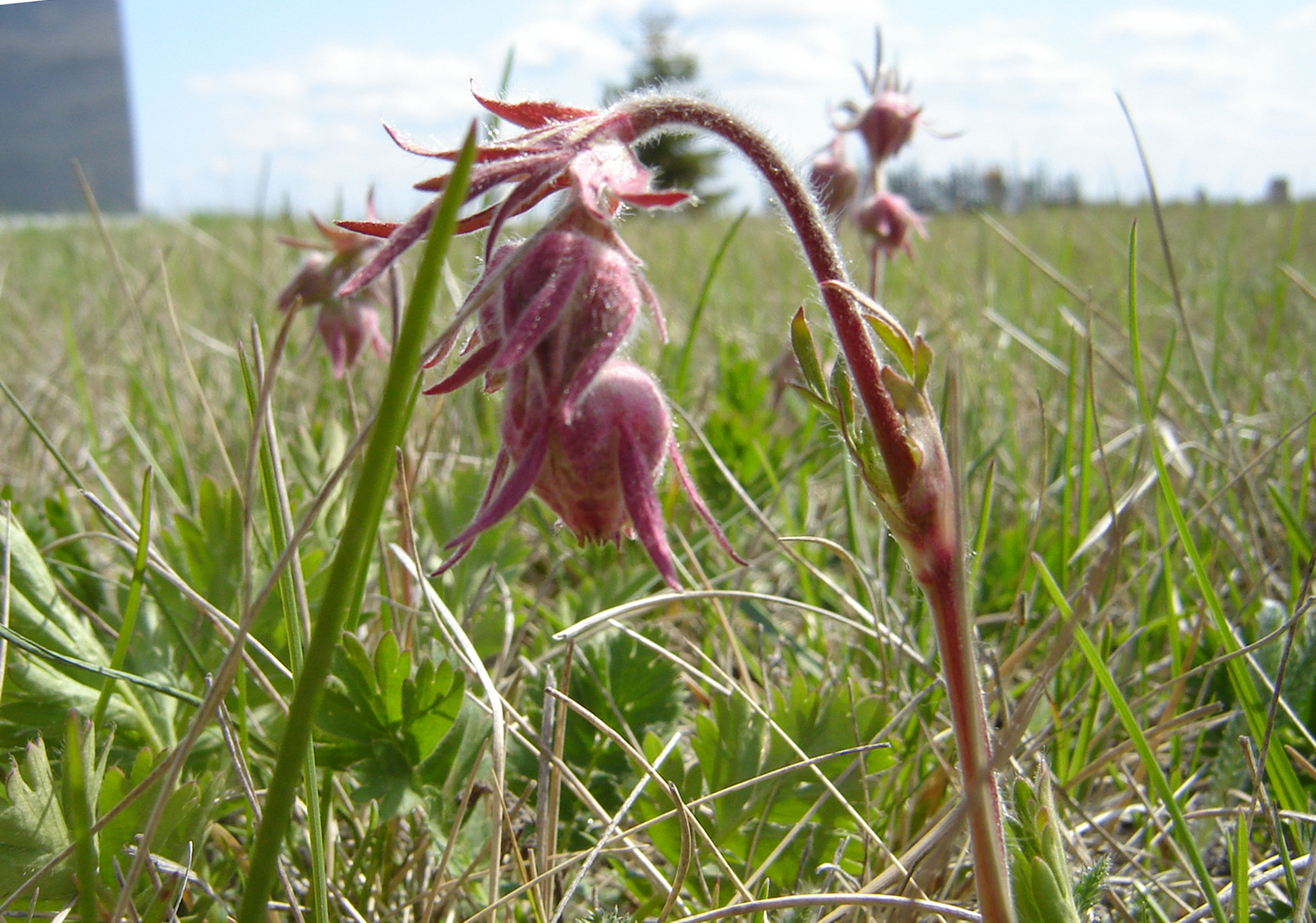 Geum triflorum, Three-Flowered Avens, Old Man's Whisker's, or Prairie Smoke Spring Wikipedia:perennial Wikipedia:prairie wild Wikipedia:flower picture taken near Elstow Saskatchewan Canada